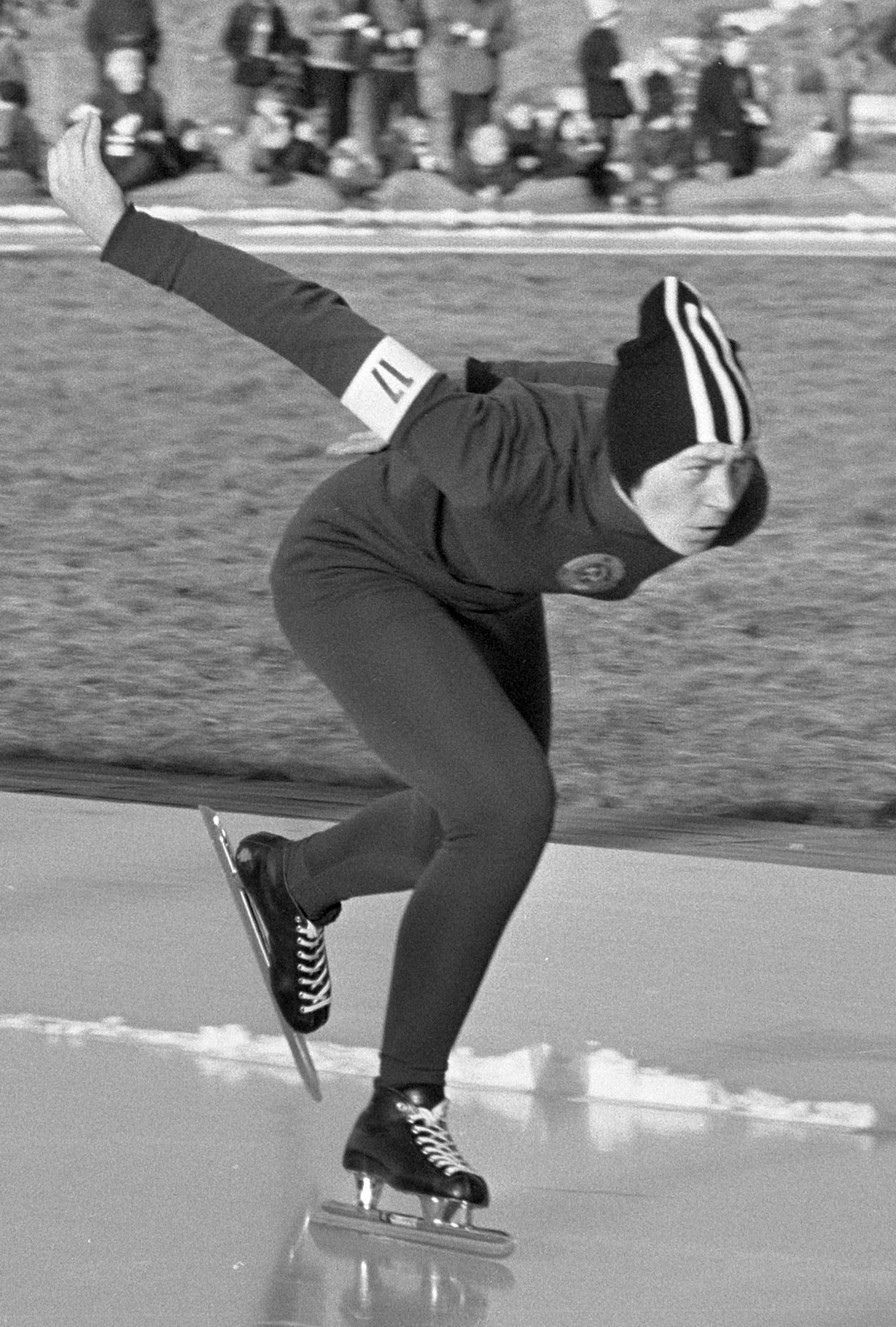 Europese kampioenschappen schaatsen voor dames Heerenveen Europees kampioene Nina Statkevitsj (USSR) in aktie